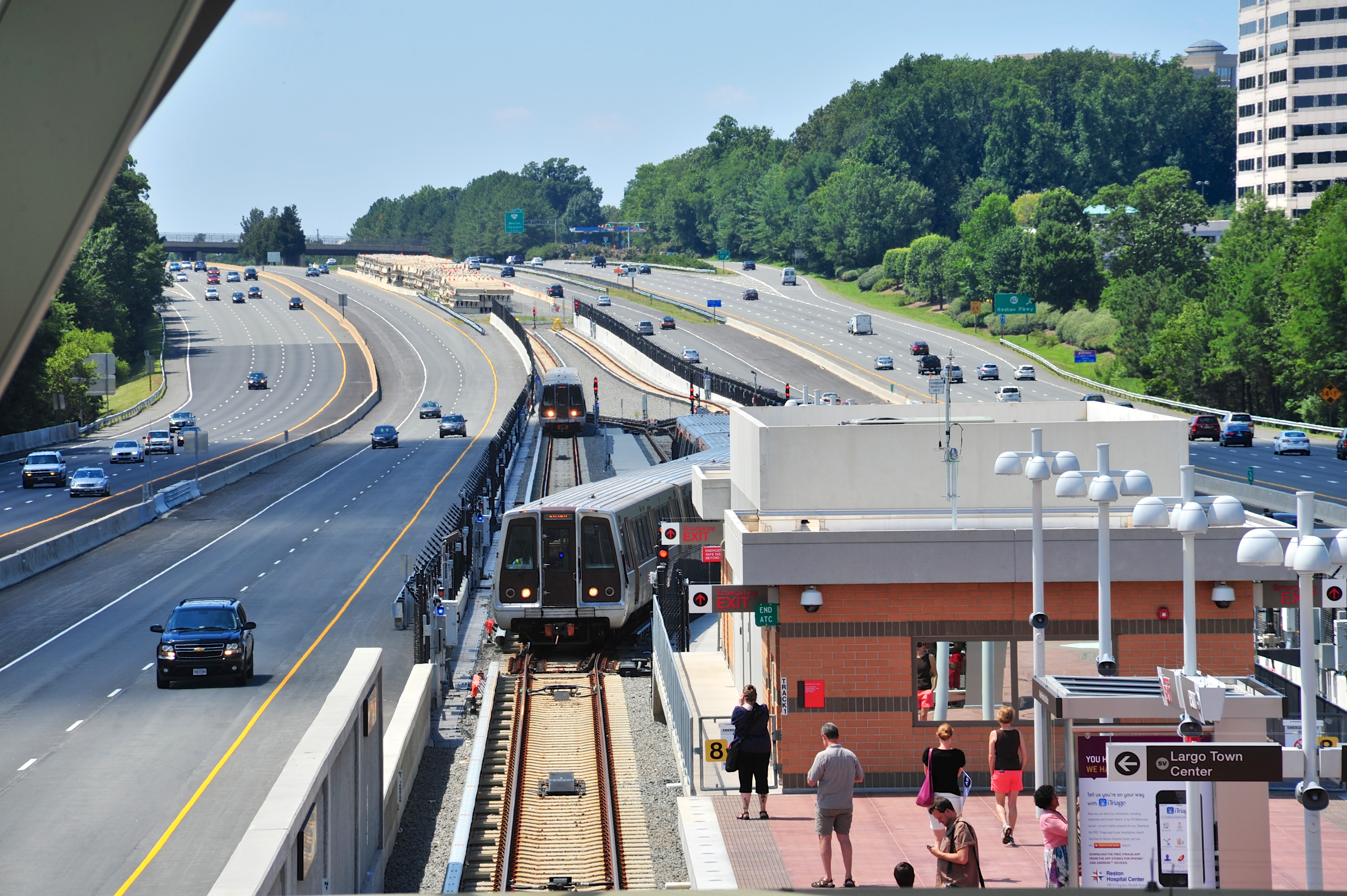 Two trains getting turned to make the trip back to Largo. The barriers stacked at the end of the line, ready to be deployed when construction gets into full swing.